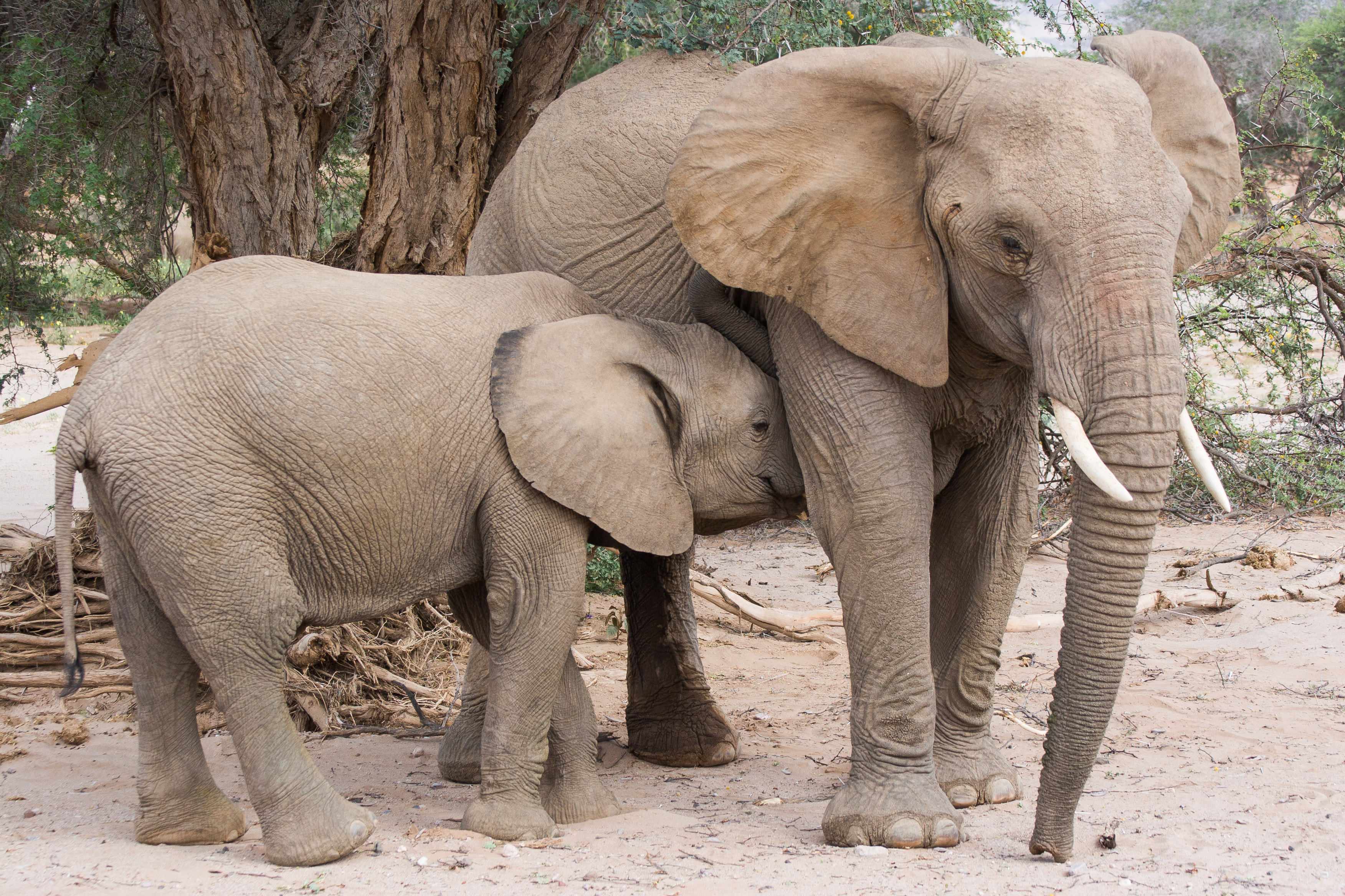 Female African bush elephant (Loxodonta africana) with juvenile, Daures, Erongo, Namibia.